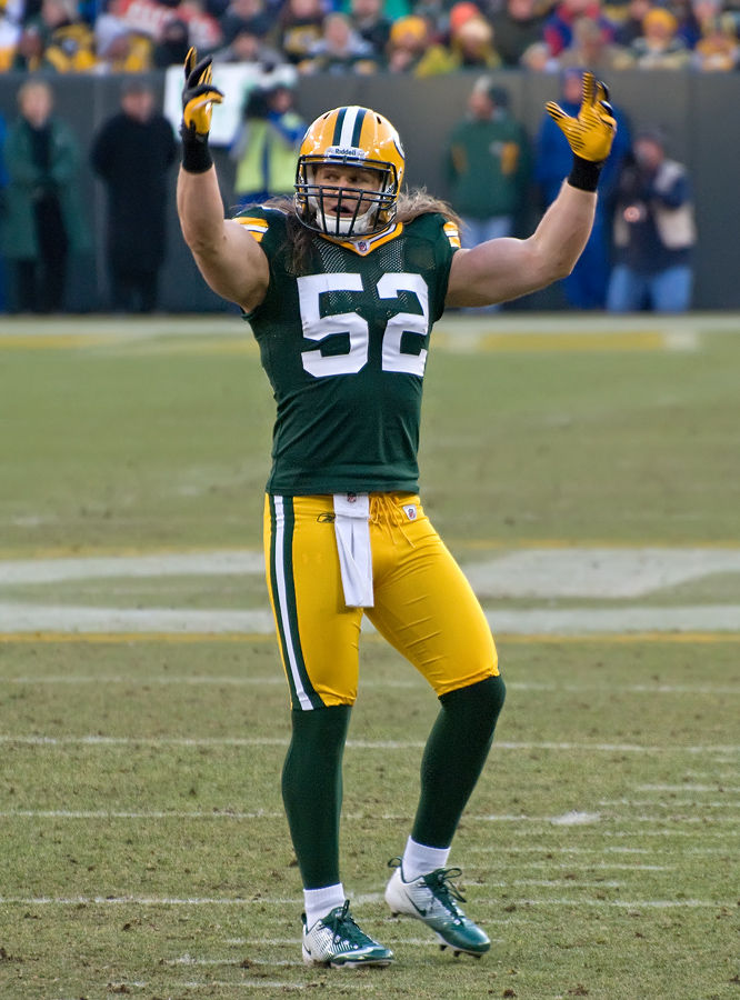 New York Giants vs. Green Bay Packers in the NFC Divisional Playoff Game at Lambeau Field on January 15, 2012. Photo by Mike Morbeck.